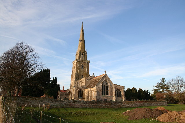 St. Andrew's church, Hacconby, Lincs. St.Andrews has early origins ... a priest's door of c1200, Early English 3 bay arcades and a Perpendicular clerestory. But it is the grand early 14th century tower and spire that are particularly appealing, built with alternating courses of ashlar and ironstone to give a striped effect.